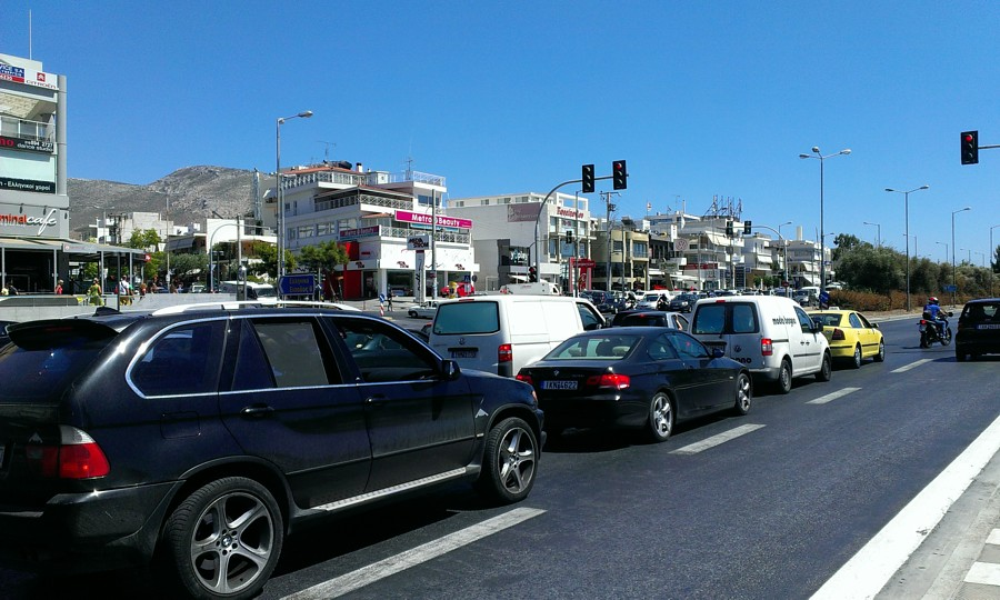 bouliagmenis